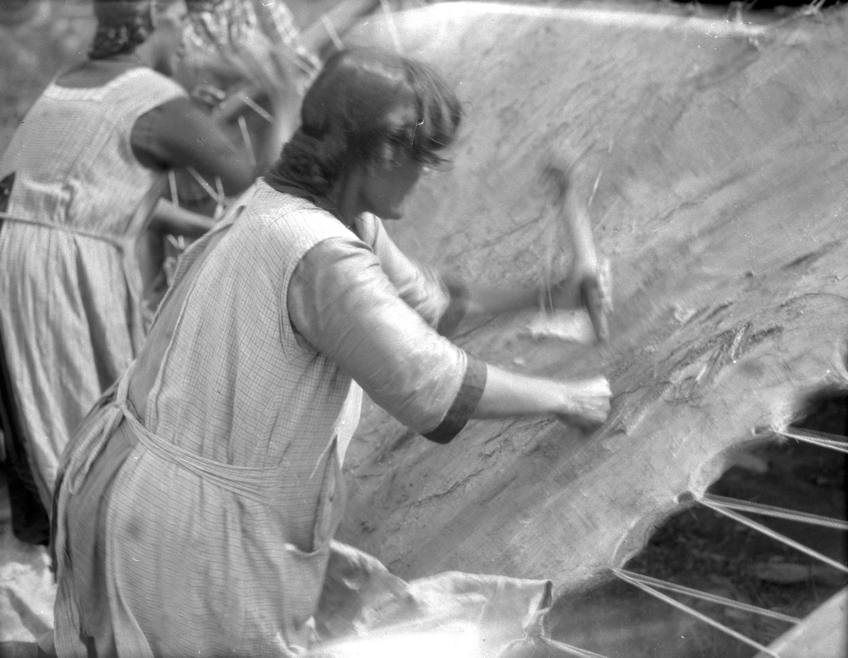 From the Paul Coze fonds, PR2006.0508/20.